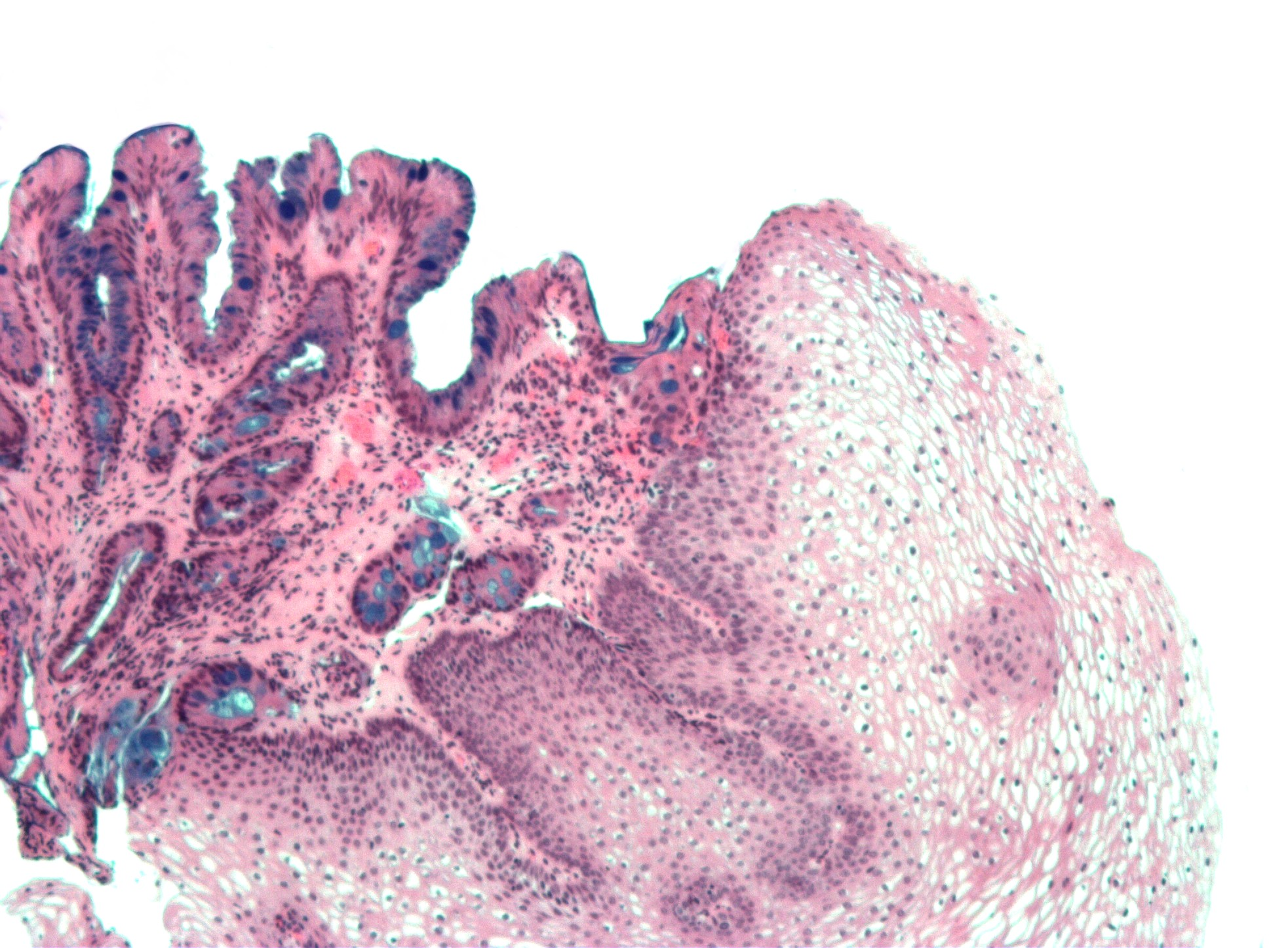 Barrett's esophagus (left part of image). Alcian blue stain. The characteristic goblet cells are stained blue. Normal stratified squamous epithelium is seen on the right of the image.